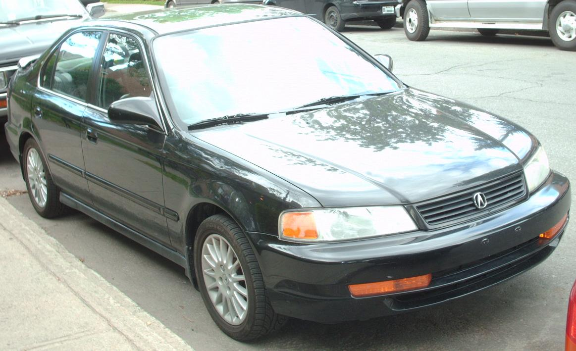 1997-1998 Acura 1.6EL photographed in Montreal, Quebec, Canada.